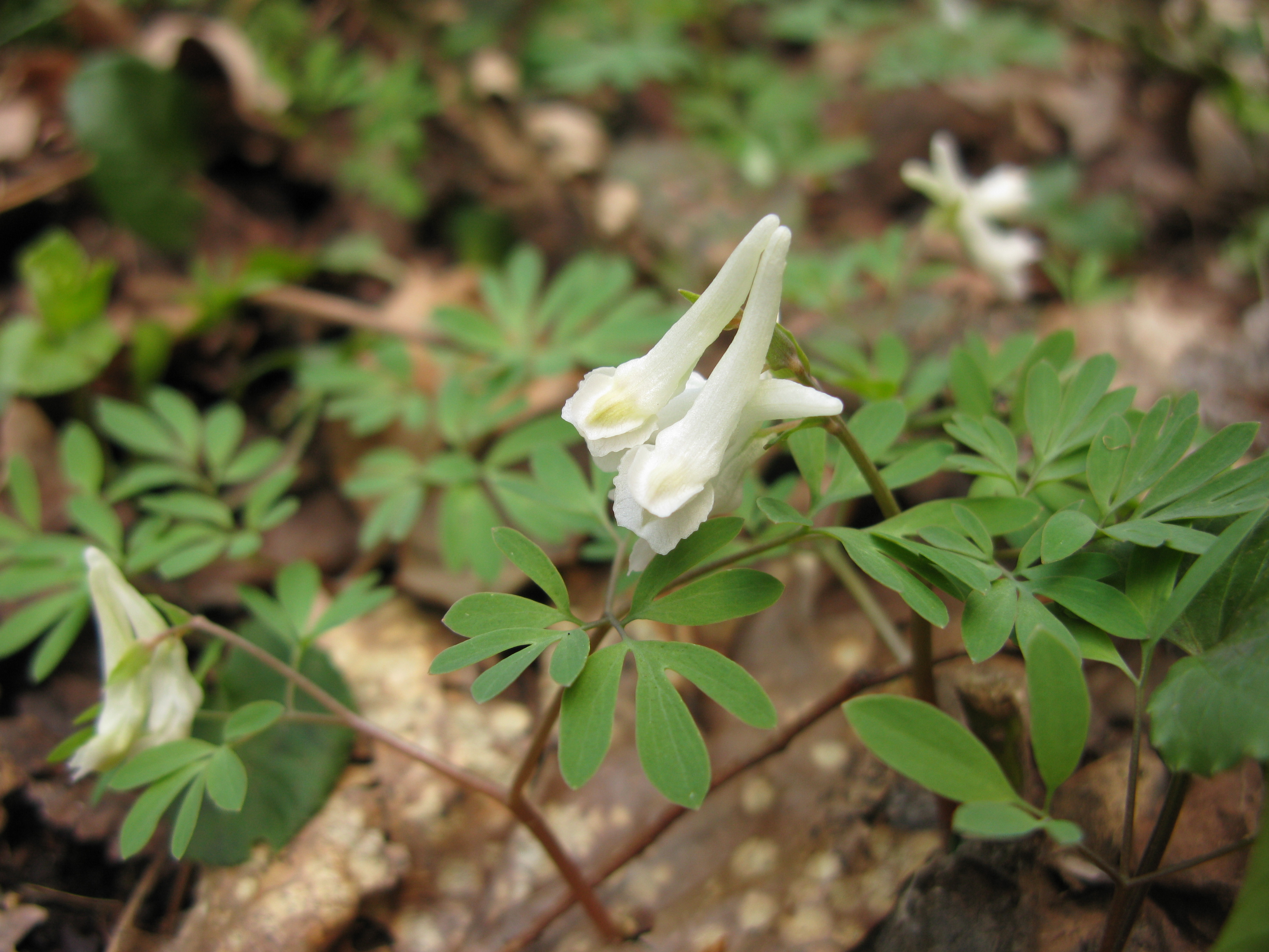 Corydalis fukuharae, Aizu area, Fukushima pref., Japan